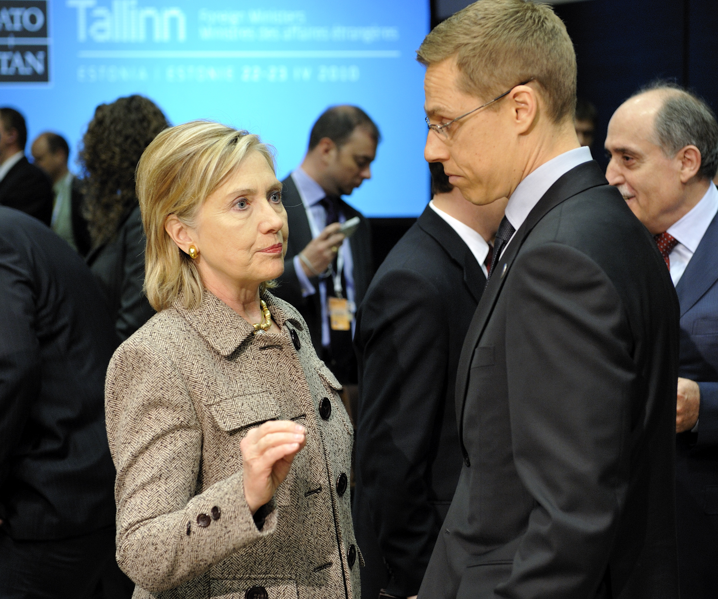 Informal Meeting of NATO Foreign Ministers in Tallinn, 2010. Hilary Clinton and Alexander Stubb